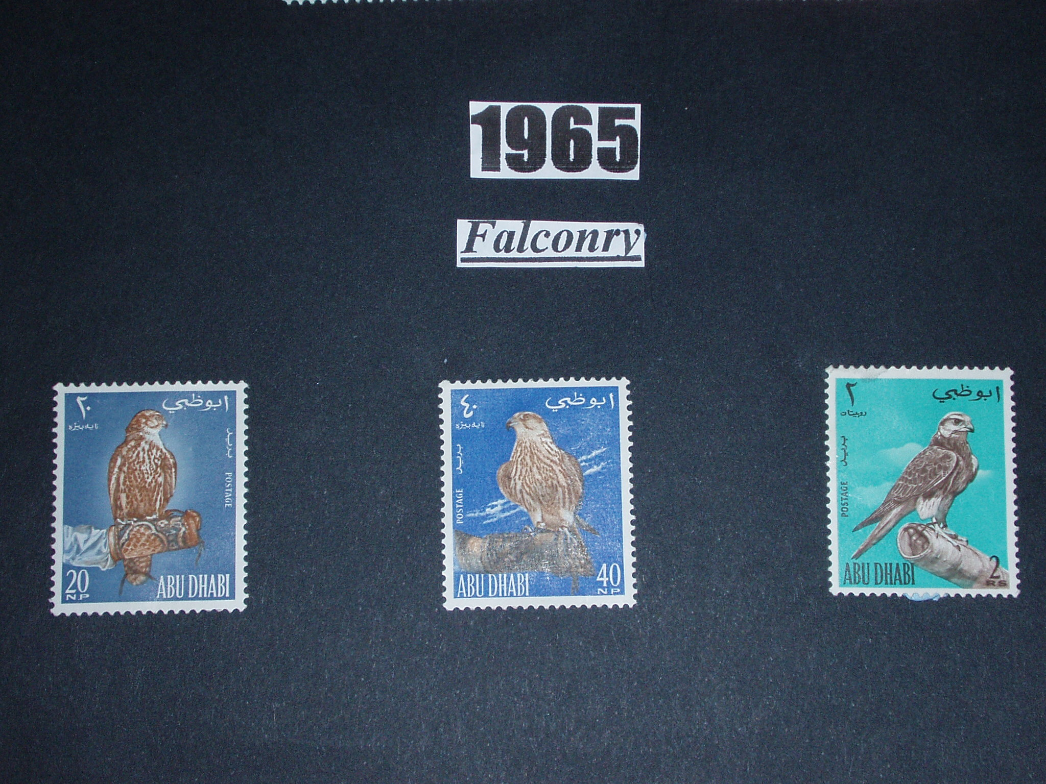 AbuDhabi stamps 1965 from my own collection -my own picture